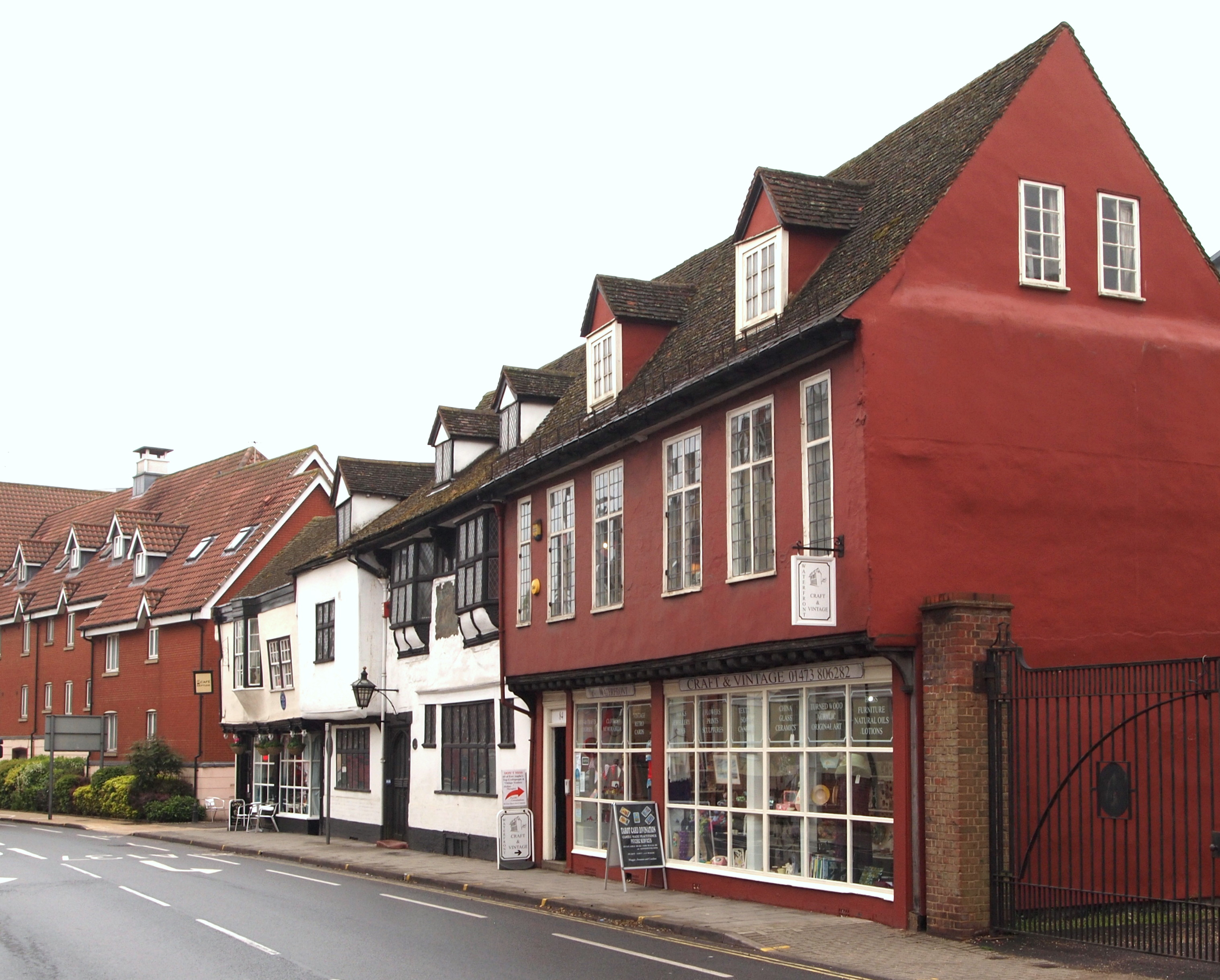 84–92, Fore Street, Ipswich, Suffolk. 86 and 88 (the central white buildings) are Grade II* listed. . Furthest white builings (Nos 90 and 92) are the Neptune Café, formerly the Neptune Inn. No 90 (with blue plaque above large shop window) is the birthplace of pioneer parachutist Edith Maud Cook (1878–1910).